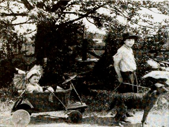 Still of child actors Helen Rowland and Joseph Depew in the American film Timothy's Quest (1922), on page 64 of the November 1922 Photoplay.